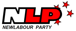 Logo of the NewLabour Party (New Zealand). Colour is believed to be correct, but might not be - it was taken from a black and white image. If incorrect, please notify the image creator.